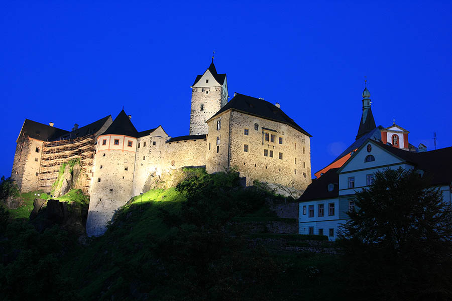 The Goethic Loket Castle (Czech: Hrad Loket) in Loket, Sokolov District, Karlovy Vary Region, Czech Republic